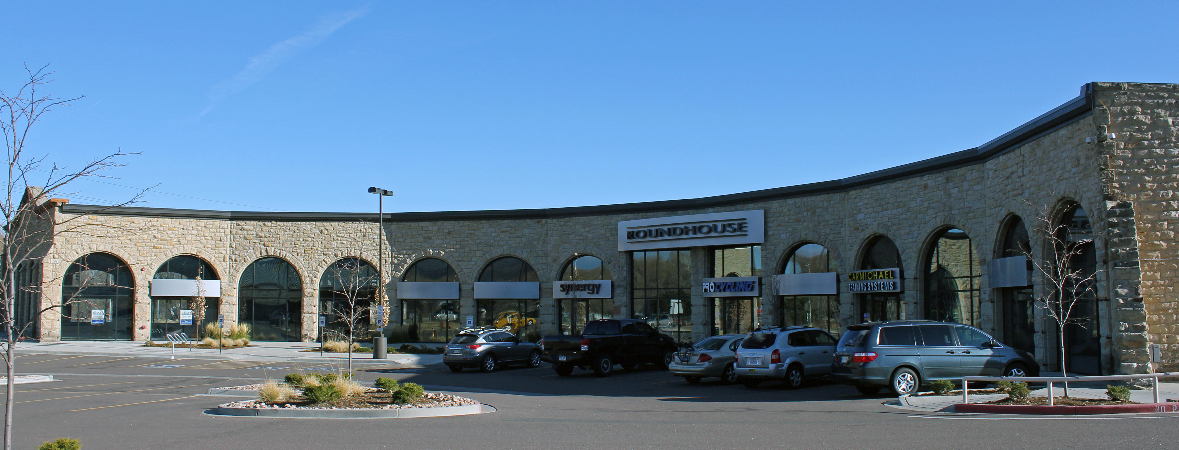 The Midland Terminal Railroad Roundhouse, located at 600 South 21st Street in Colorado Springs, Colorado. The property is listed on the National Register of Historic Places. Its contemporary use is as a commercial strip mall.